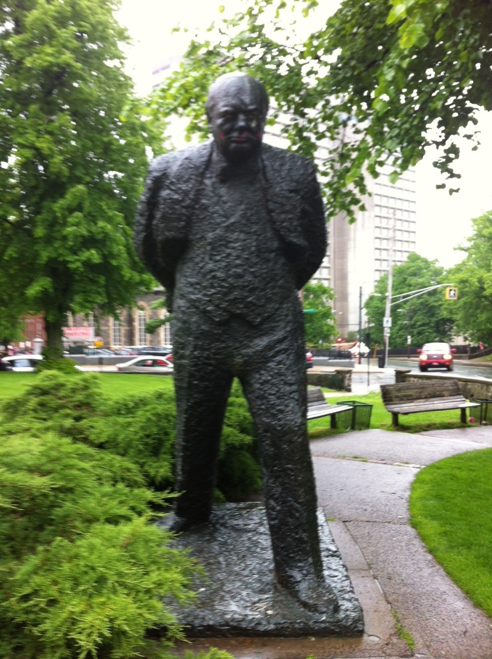 winston churchhill, halifax, nova scotia